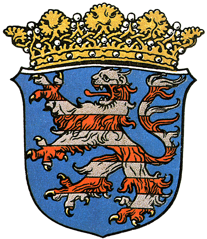 Coat of arms of the People's State of Hesse (1920–1945)